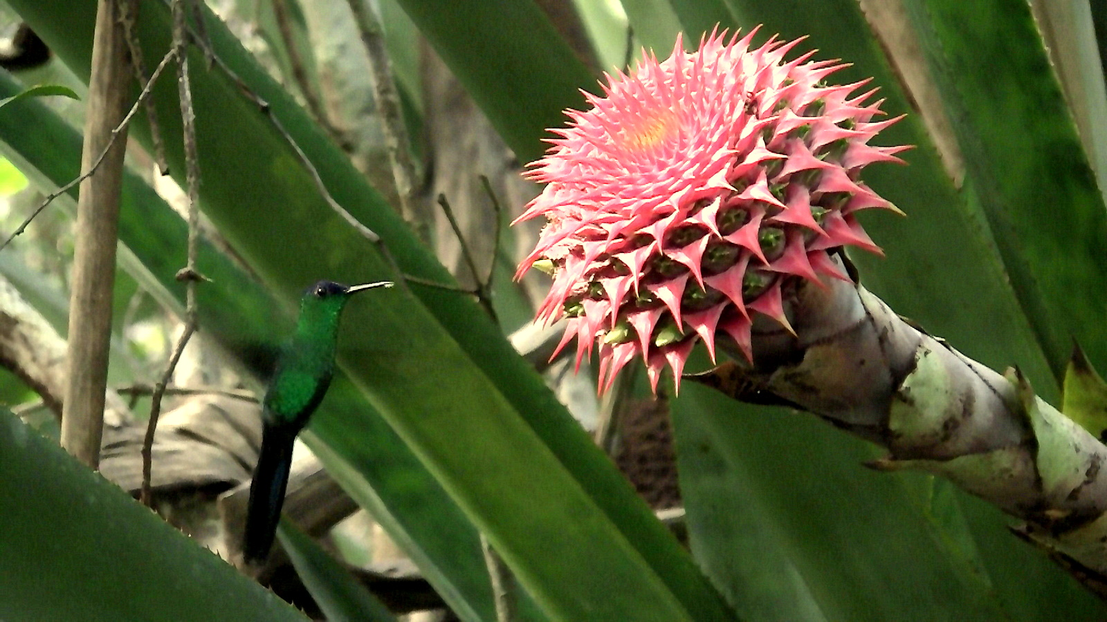 Visited by Thalurania glaucopis, its pollinator.